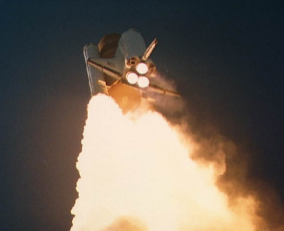 Space Shuttle Challenger launches on STS-61A